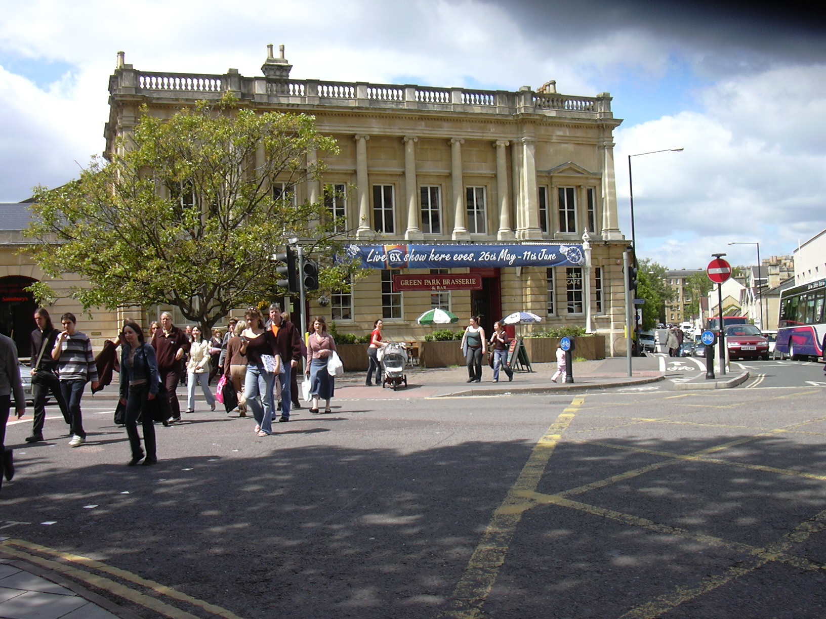 A street scene showing the front facade of Green Park Station in Bath. Pedestrians cross a road junction at traffic lights. The Classical frontage of the station is slightly obscured on the left hand side by early summer tree foliage, lower down pavement cafe parasols are visible.